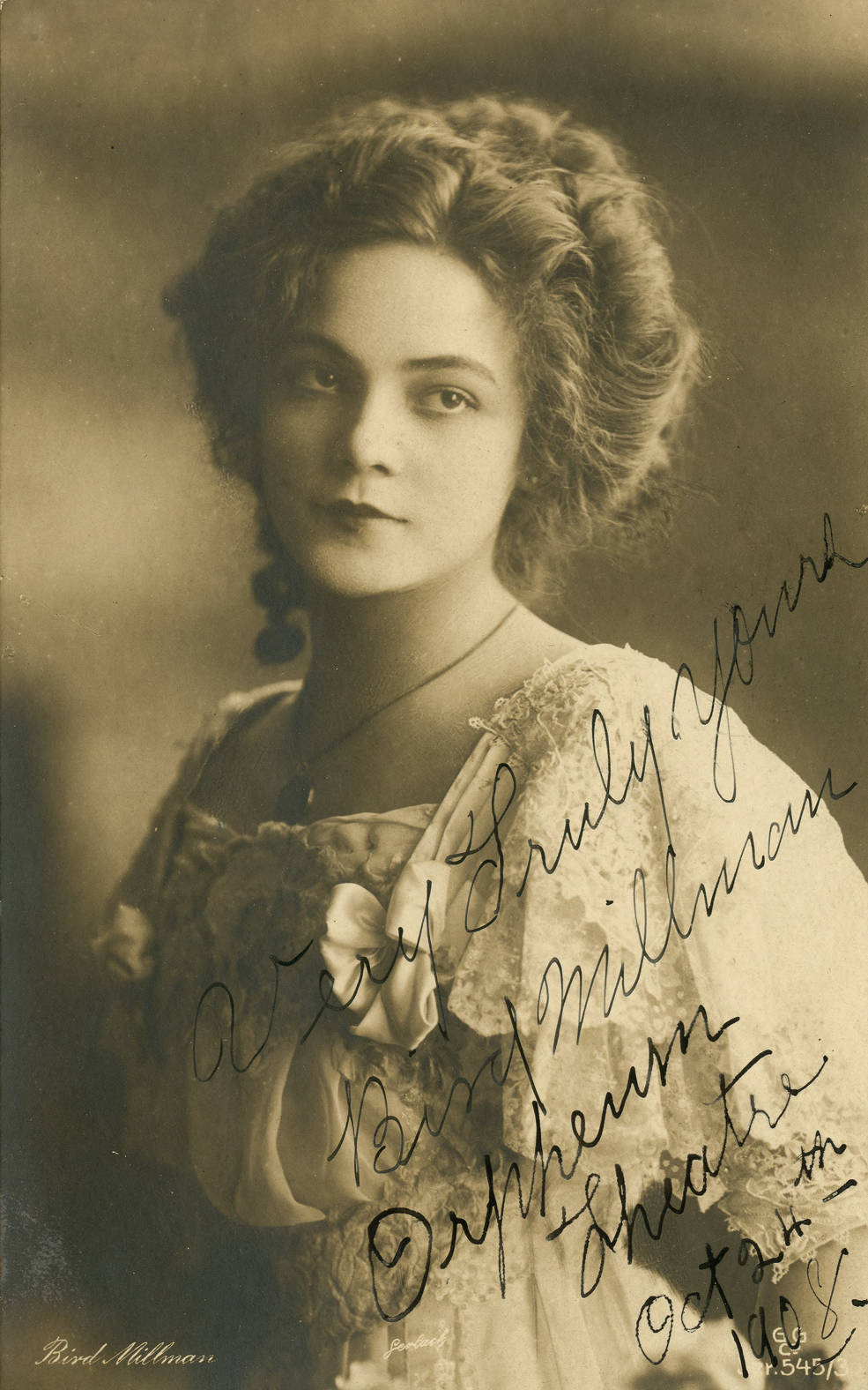 Bird Millman, vaudeville actress Subjects: vaudeville